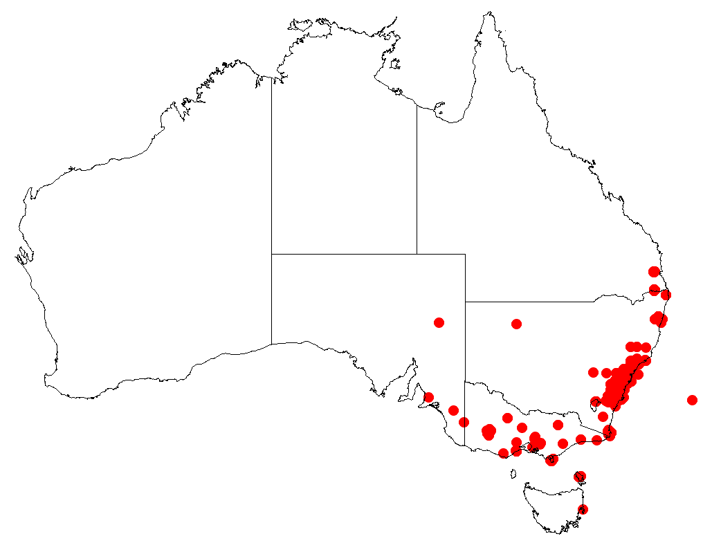 Hakea sericea Occurrence data downloaded from Australasian Virtual Herbarium on 22 November 2018 using